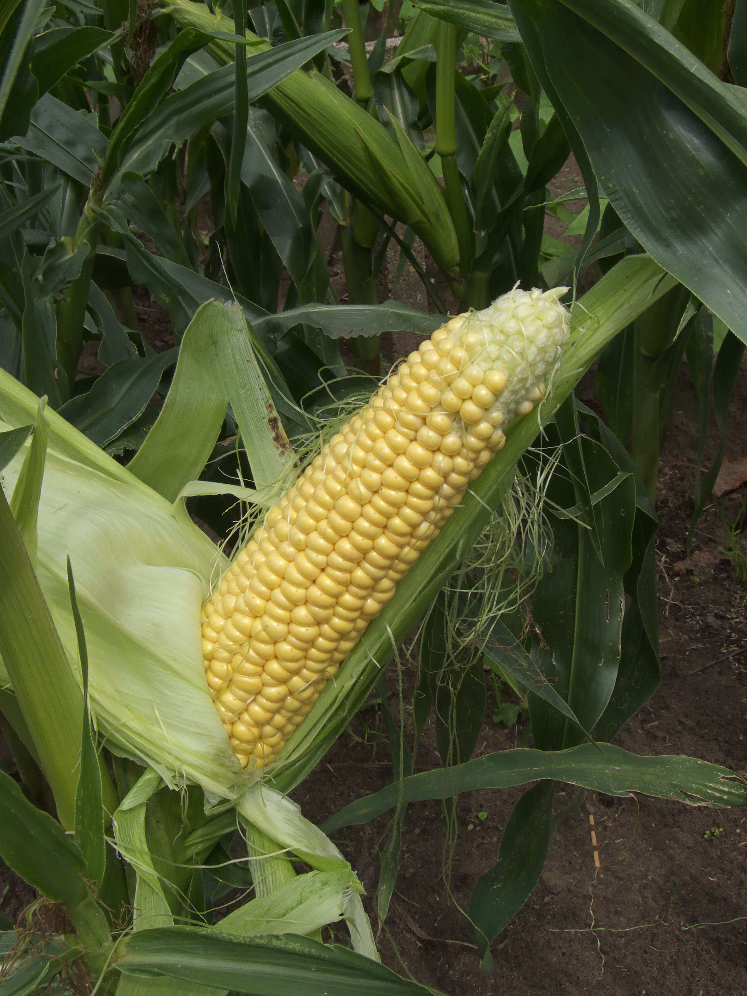 Zea mays convar. saccharata cob